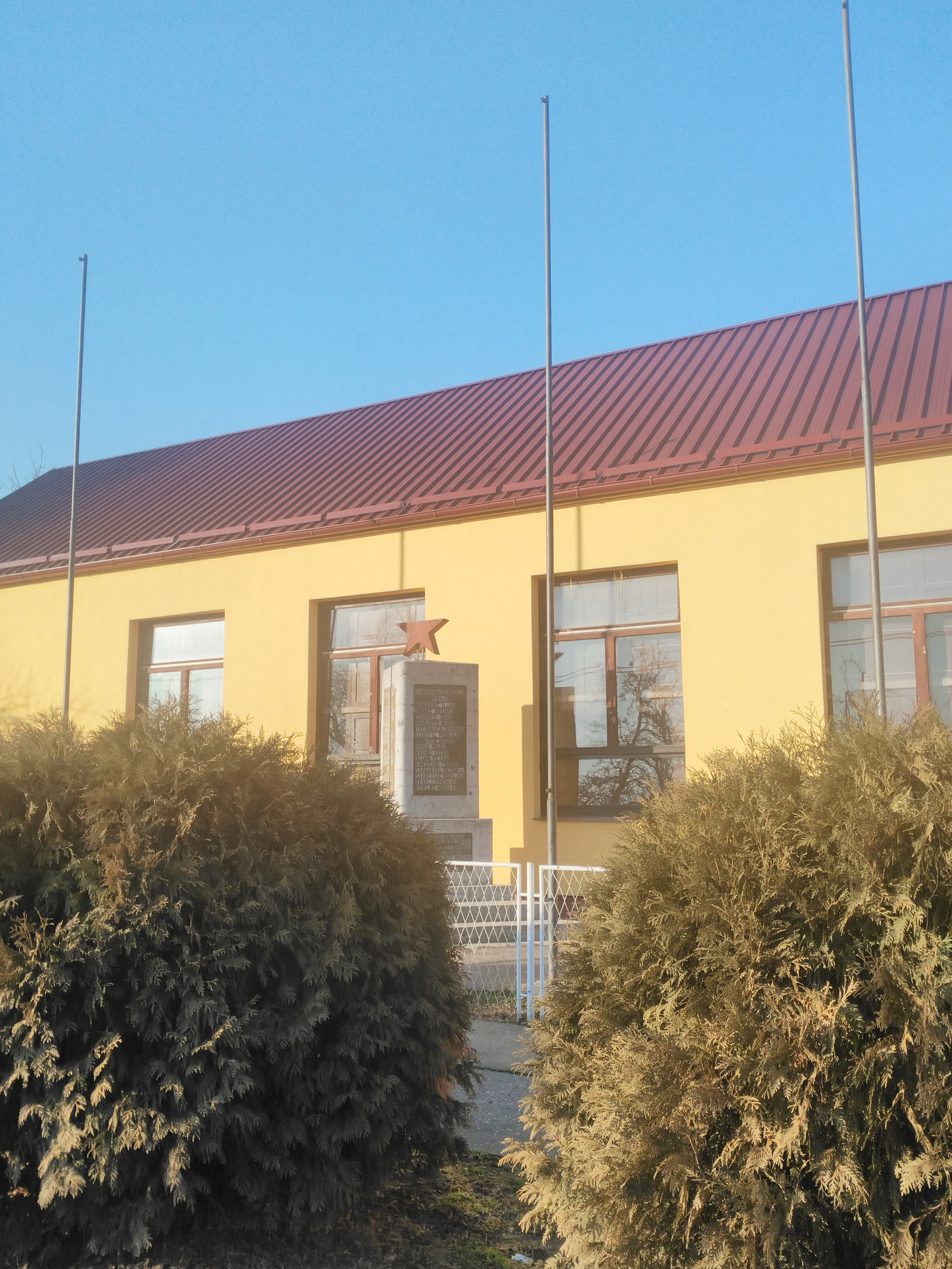 World War II memorial in the village of Palača.